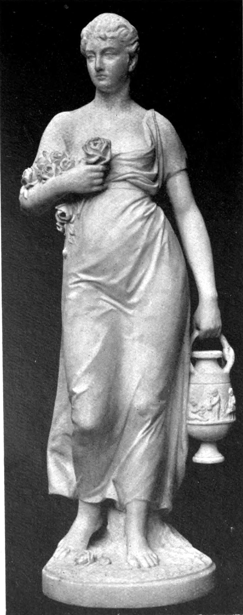 Gardener